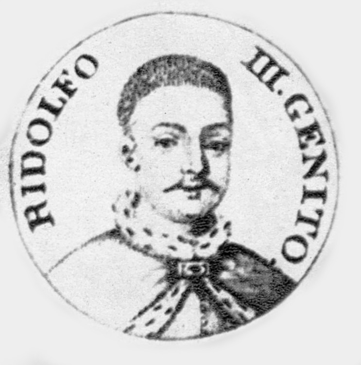 Radu Brâncoveanu, third son of Constantin Brâncoveanu, ruler of Țara Românească